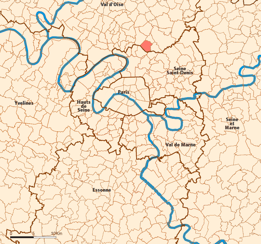 Created map myself.